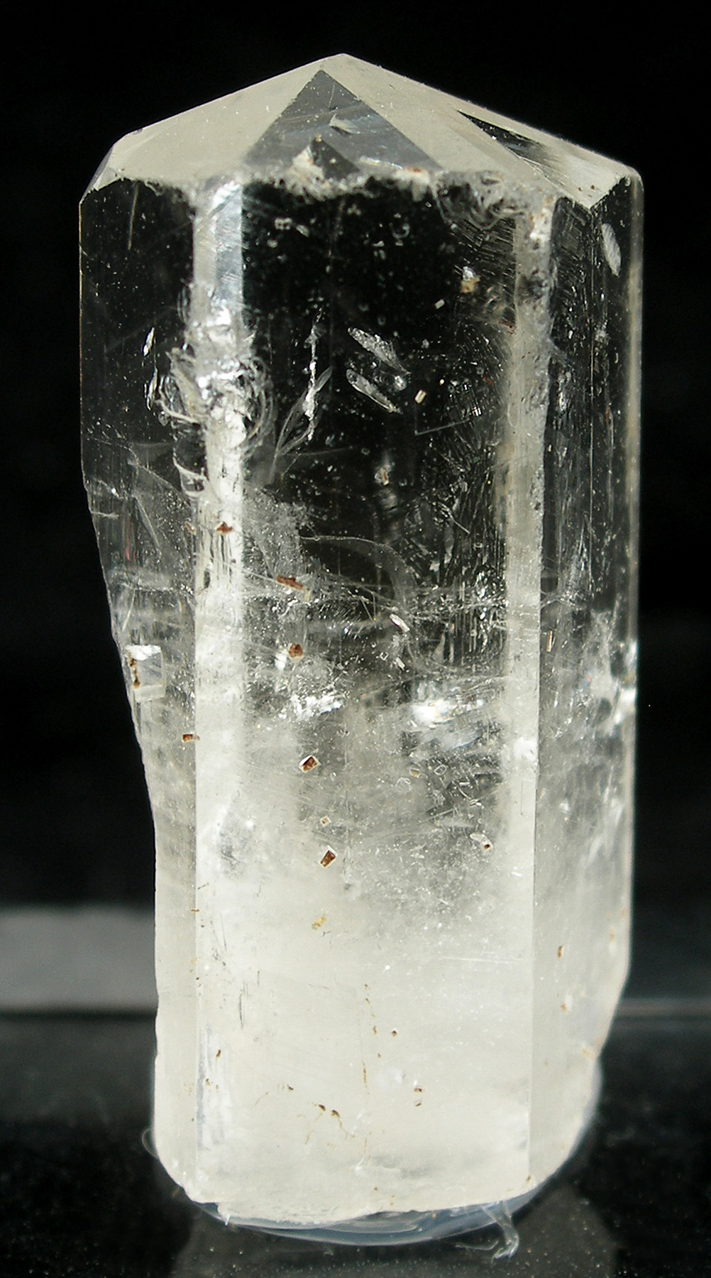 Phenakite Locality: Mogok, Pyin Oo Lwin District, Mandalay Division, Burma (Myanmar) (Locality at ) Size: miniature, 3.2 x 1.6 x 1.4 cm Phenakite (twinned) Out of all phenakite locales, these Mogok crystals stand in a unique place because of their sharp twinning about the long axis, easily visible in the complex, spoked terminations. This is a superb, gemmy, sharply twinned single crystal of phenakite, 12 grams in mass. The crystal here is exceptional in size and gemminess, and comes from the first trickle out of here in 2008 or so. Since that time, a few small pockets have been hit, sparse and intermittently worked. But no major or large find has turned up and these continue to be hard to obtain. This is a superb example, and quite distinct from phenakite from other locales.